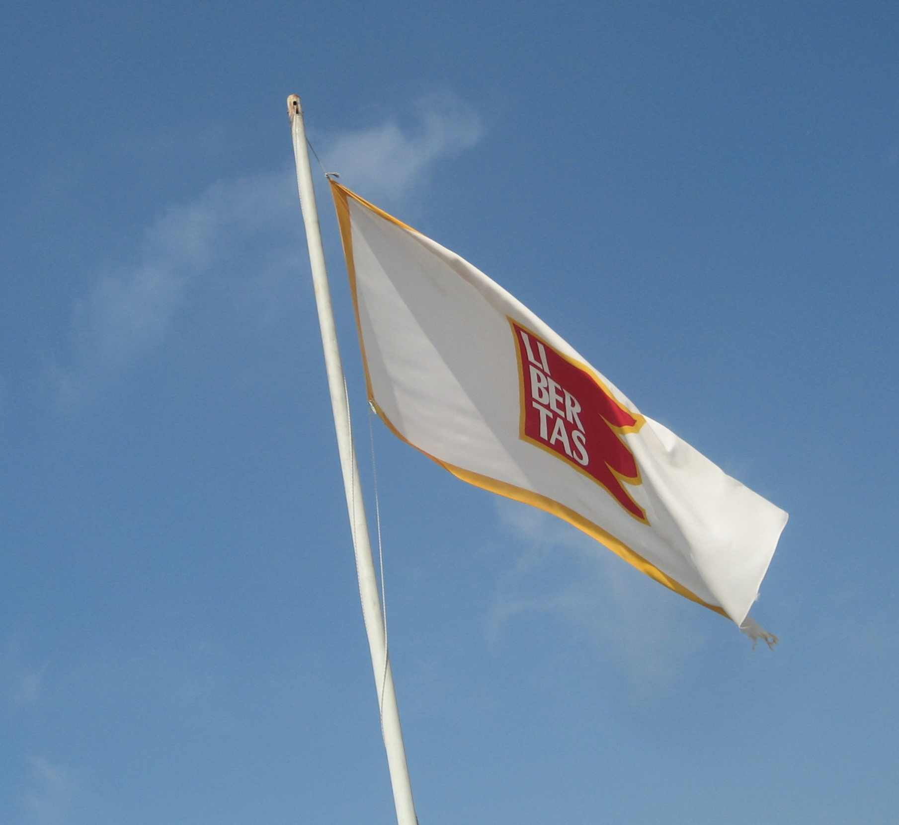 Libertas, Flag of Dubrovnik